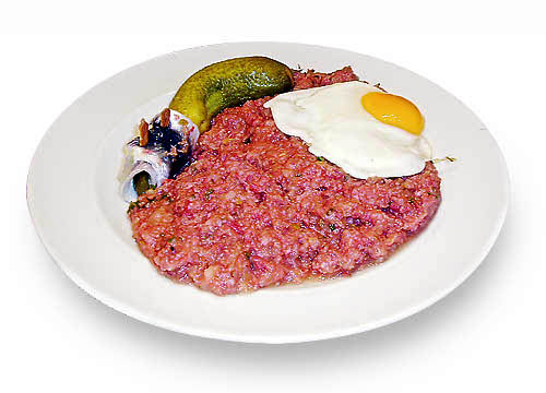 German Labskaus